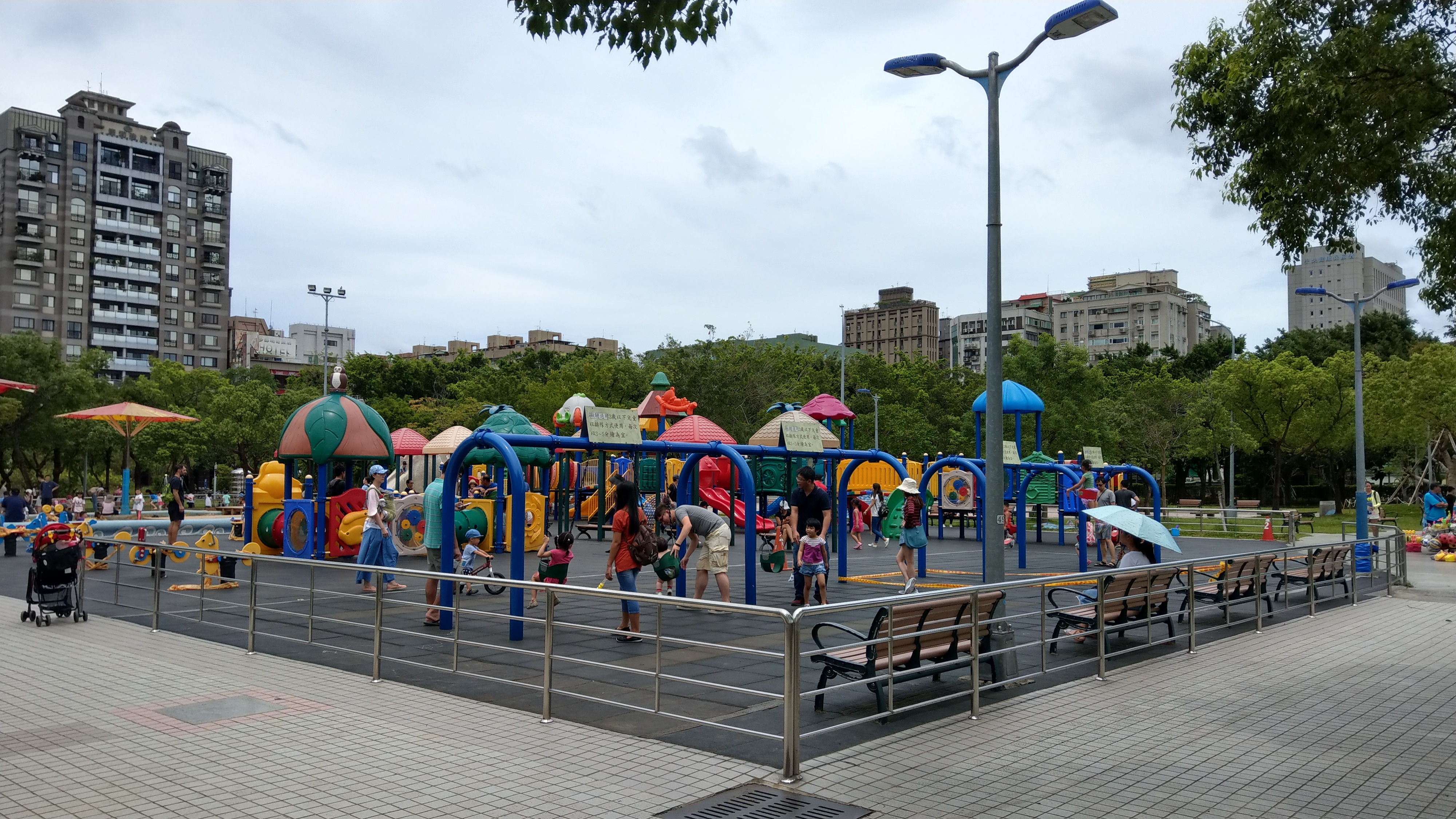 Playground in Daan Park, Taipei City, Taiwan, which was built in 2018.